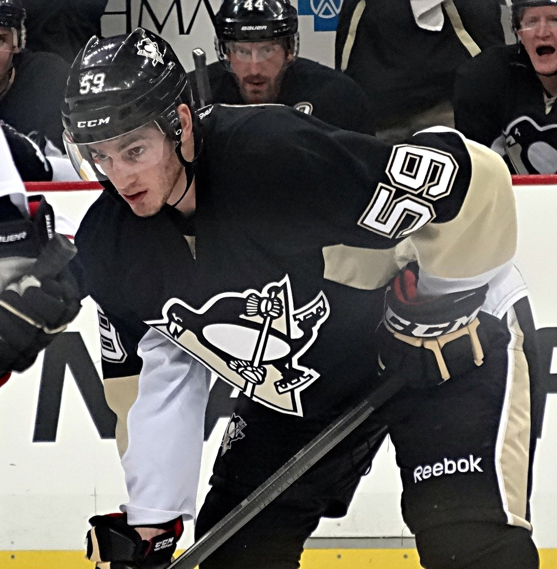 Pittsburgh Penguins forward Jayson Megna during a game against the Columbus Blue Jackets, November 1, 2013, at Consol Energy Center in Pittsburgh, PA.